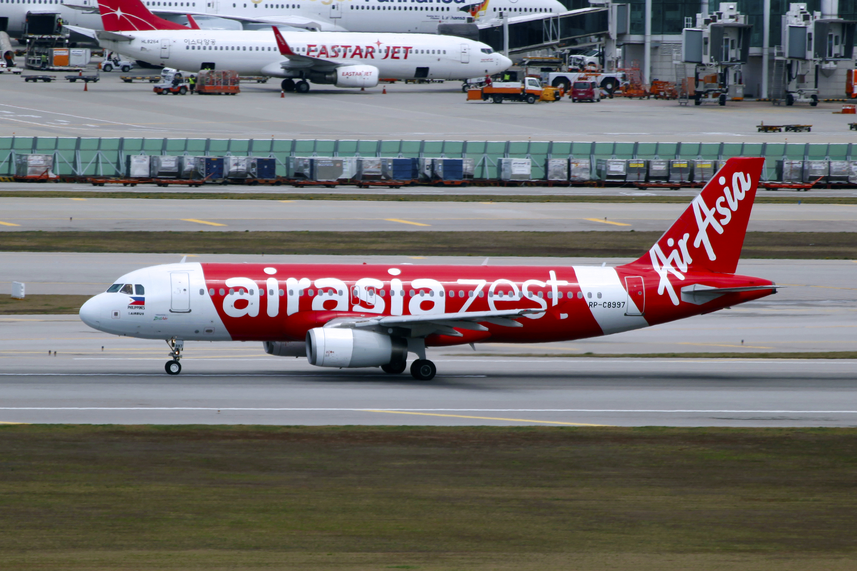 RP-C8997 | AirAsia Zest | Airbus A320-232 | Seoul Incheon International Airport [ICN]